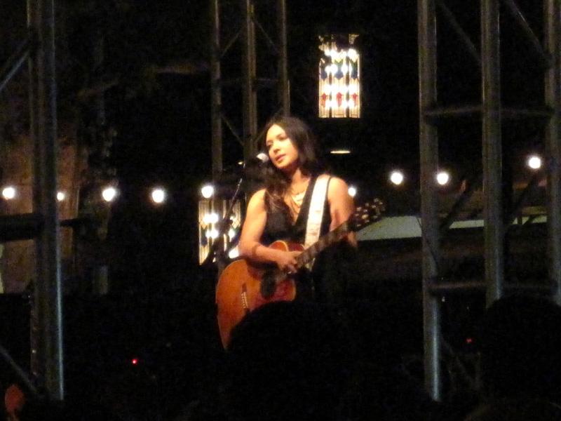 Michelle Branch is the most successful of a crop of young female singer-songwriters from the first decade of the millennium. I am enjoying a free concert of hers at The Grove shopping mall, part of a free concert series held there once a week every August. A similar August free concert at this very same place in 2006 was when I got to know and meet another great female singer-songwriter, Anna Nalick. I thoroughly enjoyed this show - Michelle performed many numbers, from her younger, earlier years through collaboration with Santana, her country duet project The Wreckers, to her newest album yet to be released. For the Santana collaboration number "The Game of Love," one of her on-stage guitarists subbed for Santana, while for the duet "Leave the Pieces," Ashley Monroe, the other half of The Wreckers, joined in. This was my first Michelle Branch show. I took in Michelle again on 27 August 2011 at Greek Theatre in Los Angeles, in the form of a joint show with the Goo Goo Dolls.